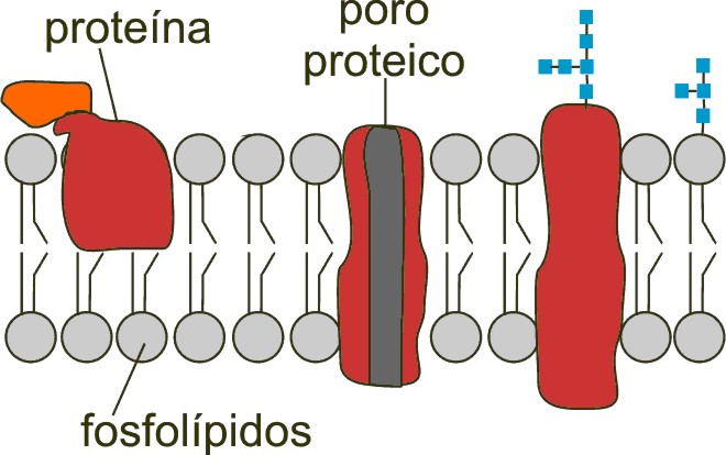 Singer and Nicolson model cell membrane jpg